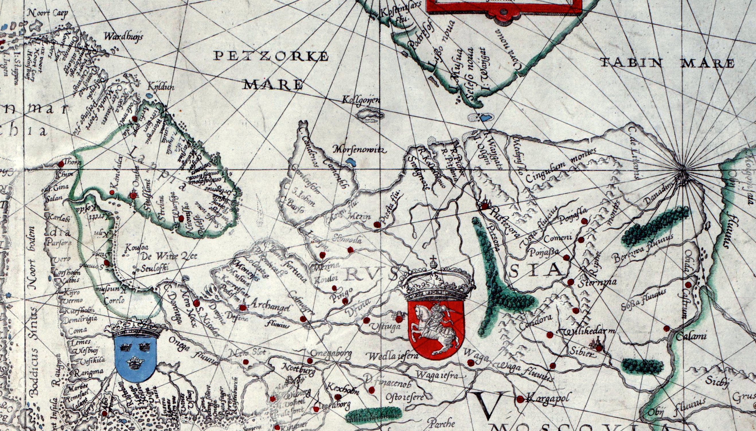 Fragment of the Generale pascaerte van gantsch Europa. Northern trade area explored by the British and the Dutch.